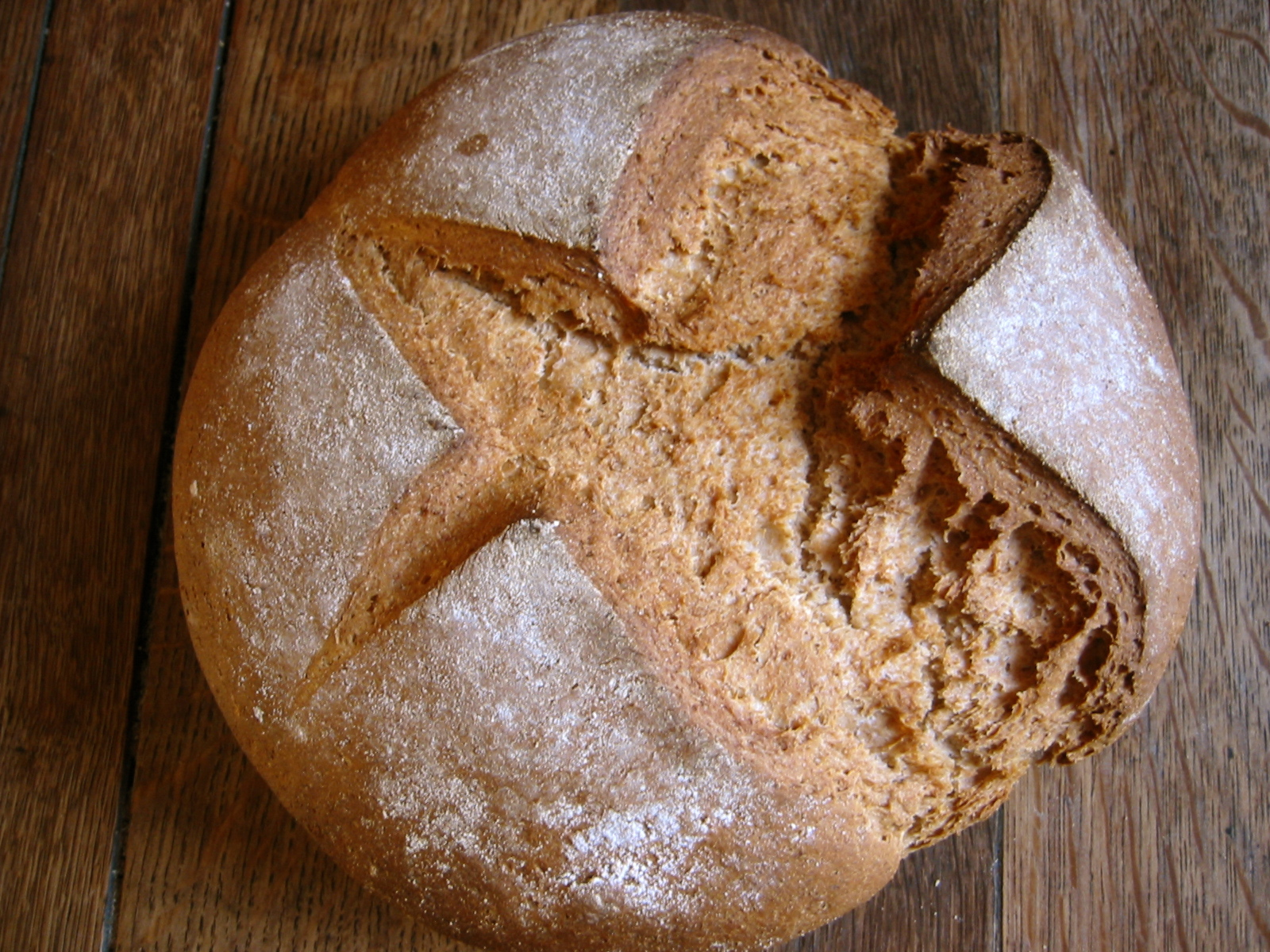 Bread spelt